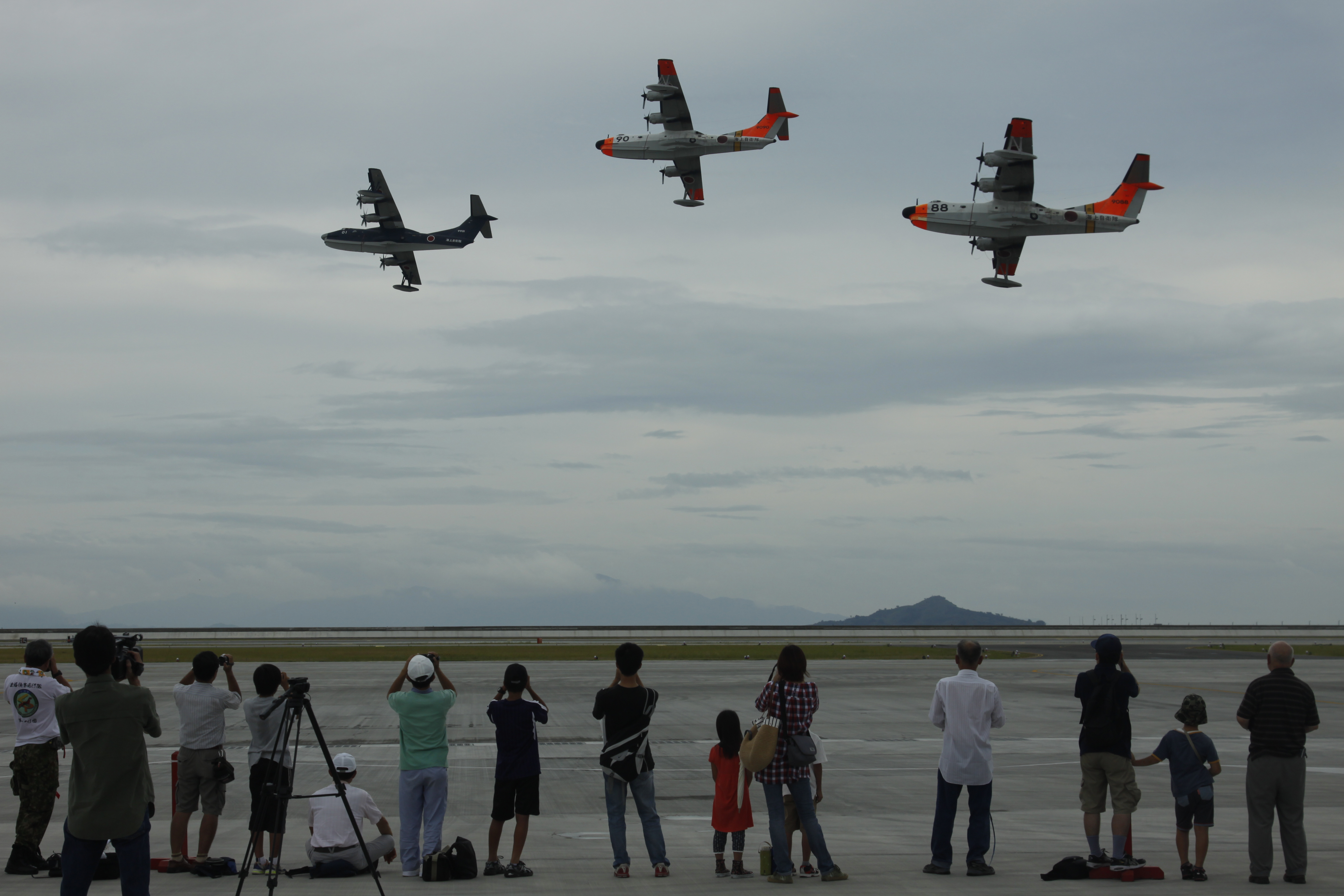 Japanese off-base residents have cameras at the ready as Shinmeiwa US-1As, also called Flying Boats, perform a flight demonstration during the Japanese Maritime Self-Defense Force Iwakuni Air Base Festival here Sunday. Among the attractions the surrounding communites witnessed were helicopter and aircraft flyovers, a silent drill platoon with fixed bayonets on rifles, static displays of various aircraft and a helicopter carrier. The Flying Boat has a wing span of 33.2 meters, a hight of 9.9 meters, a maximum speed of 464 kilometers per hour, a range of 4,050 km and carries a 12 crew member team.